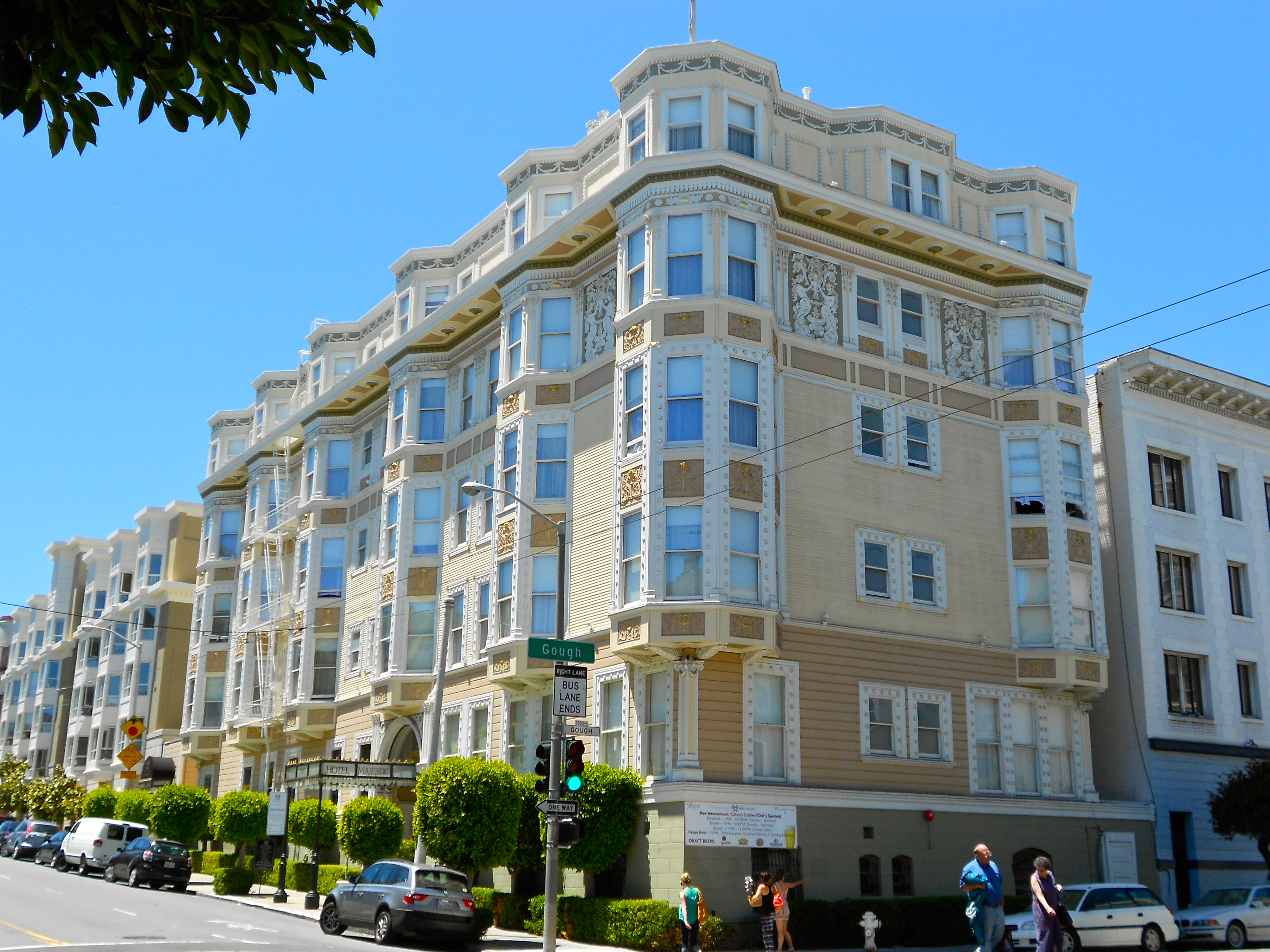 The Hotel Majestic on Gough Street (at Sutter?) San Francisco, California